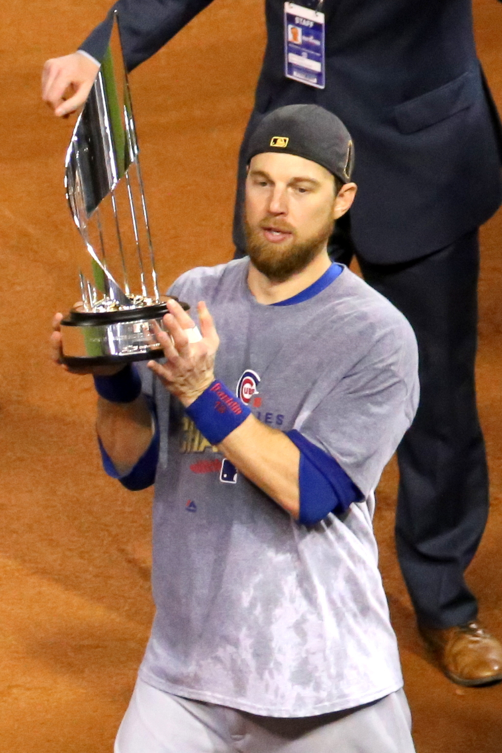 2016 World Series Most Valuable Player Ben Zobrist with his trophy.